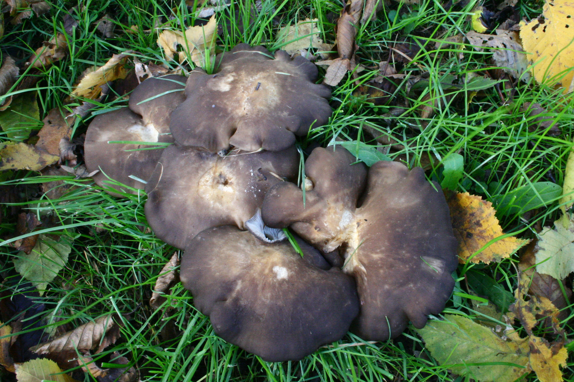 Lyophyllum loricatum in a park near Paris, France.